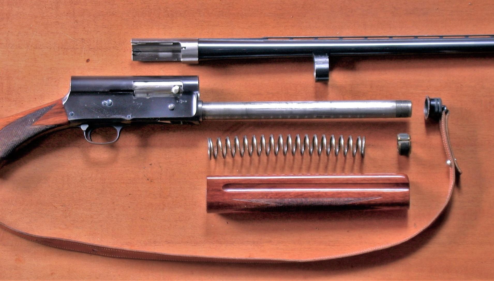 Browning Auto 5, barrel dismounted